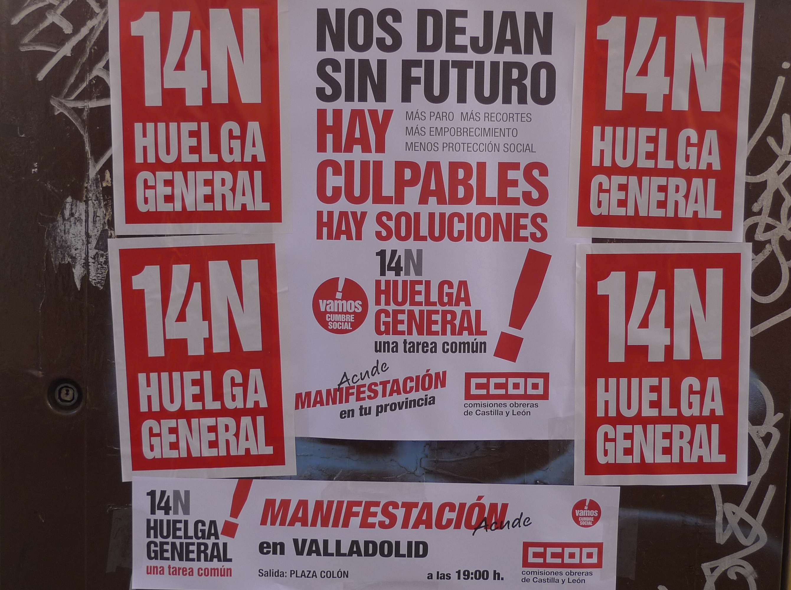 General Strike Spain November 14, 2012 Valladolid Posters